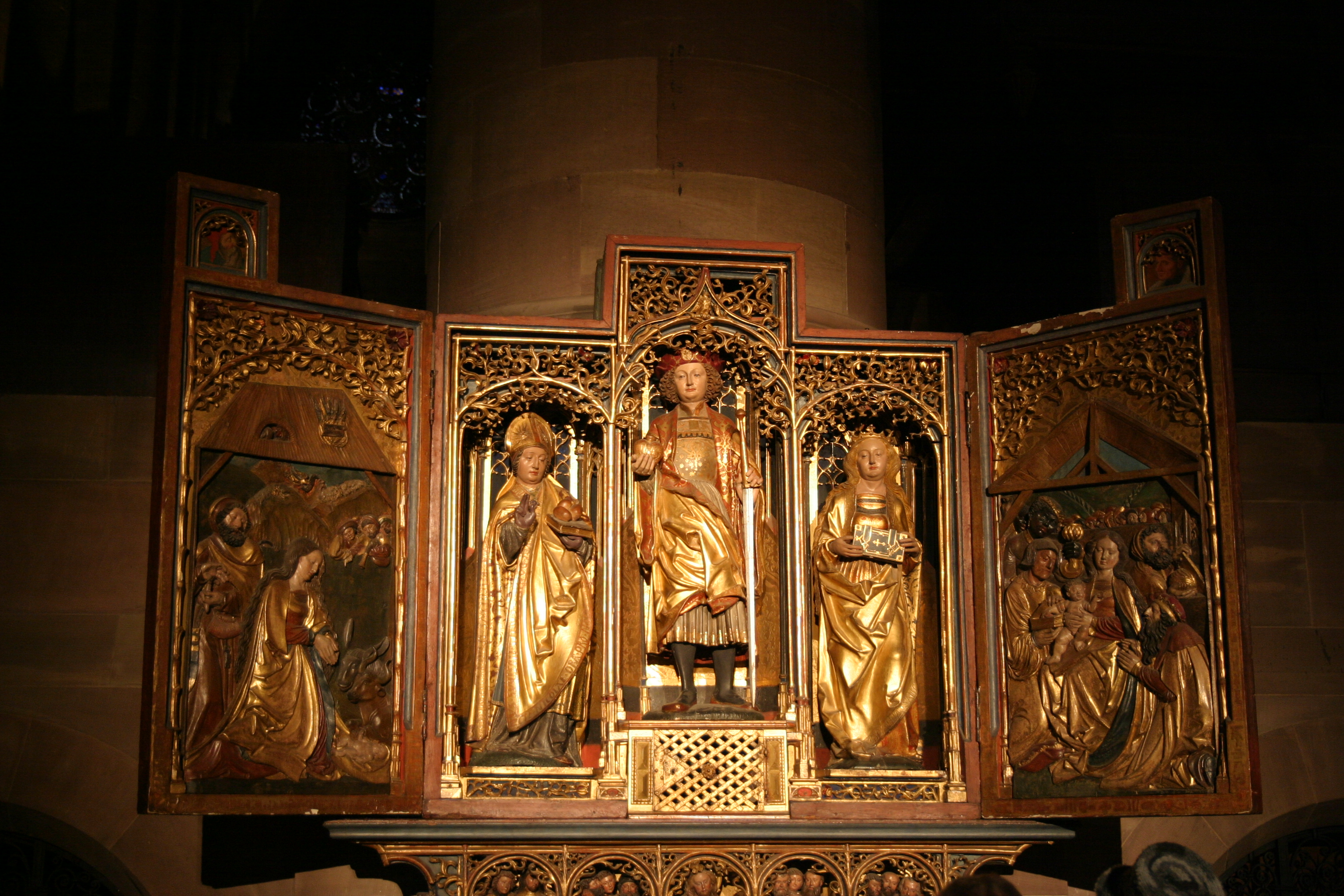 This image was taken at Strasbourg Cathedral, Strasbourg.